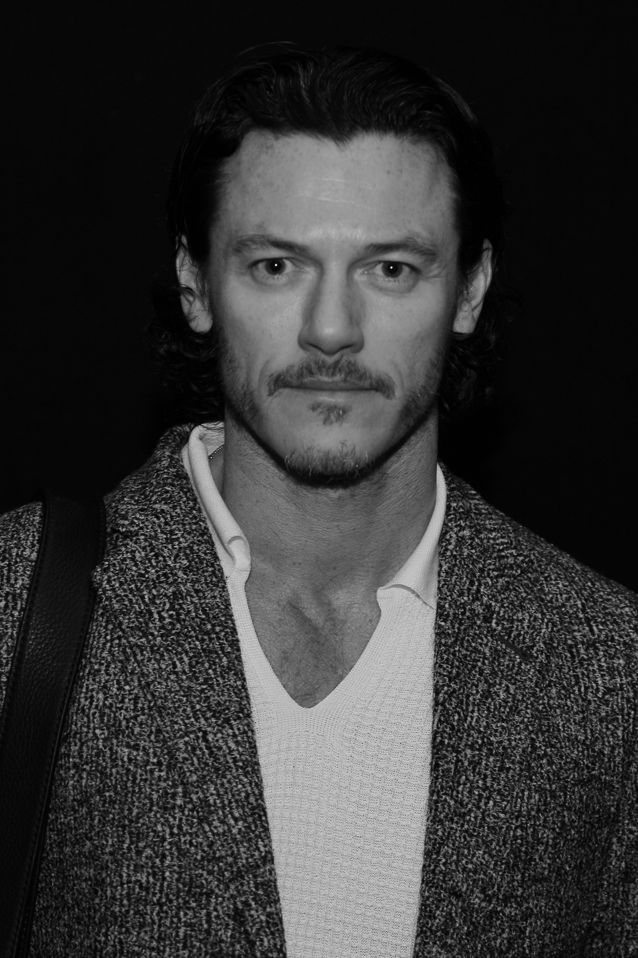 Luke Evans (born 15 April 1979) is a Welsh actor and singer. Evans began his career in stage acting performing in many of London's West End productions such as Rent, Miss Saigon, and Piaf before getting his breakthrough role in Hollywood starring in 2010's Clash of the Titans remake, playing Apollo. Following his debut, Evans was cast in action and thriller films such as Immortals, The Raven and played Aramis in the 2011 revamped adaptation of The Three Musketeers. Photo by : Walterlan Papetti In 2013, Evans starred as the main antagonist Owen Shaw in the blockbuster Fast & Furious 6. He was also cast as Bard the Bowman in Peter Jackson's three-part adaptation of J.R.R. Tolkien's The Hobbit.[2] Evans has been cast as the lead in the reboot of the comic book film The Crow[3] and is slated to portray the vampire Dracula in the character's film origin story Dracula Untold.[4]